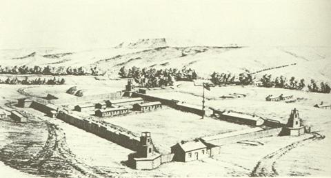 Etching from Harpers Weekly